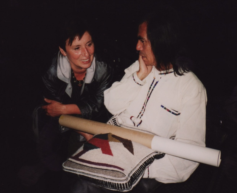 German poet Charlotte Grasnick and Peruvian poet José Pablo Quevedo after a reading in Berlin.